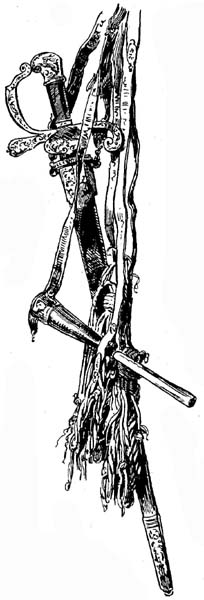 Hunting weapon for deer, illustration from a book "Handbuch der Waffenkunde. Das Waffenwesen in seiner historischen Entwicklung vom Beginn des Mittelalters bis zum Ende des 18. Jahrhunderts" by Wendelin Boeheim, Leipzig, 1890